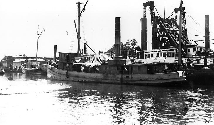 Davis K. Philips (American Menhaden Fishing Vessel, 1877) In port, possibly while she was in U.S. Navy service. Several men in what appear to be enlisted working uniforms are on her decks and those of a nearby vessel. Though described on her official data card as "40 yrs old and below required speed", this fishing vessel was placed in commission as USS Davis K. Philips (SP-978) on 21 May 1917. She was sold on 23 June 1919.